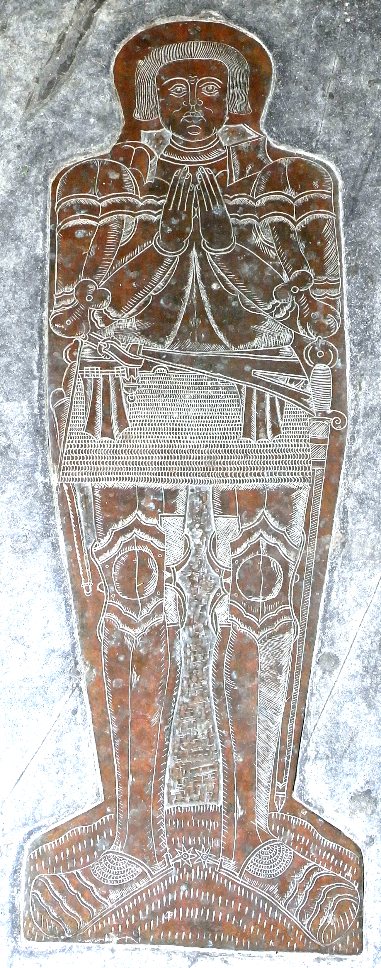 Monumental brass believed to represent Sir William Cary (1437-1471), lord of the manors of Clovelly and Cockington, Devon. Set into a slate ledger stone in floor of chancel, All Saints Church, Clovelly, without identifying inscription or armorials. (Griggs, William, A Guide to All Saints Church, Clovelly, first published 1980, Revised Version, 2010, p.5)